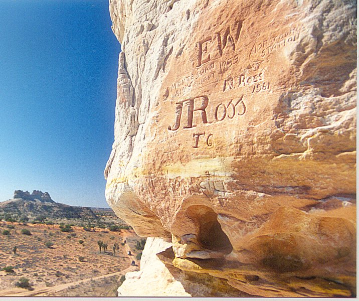 Graffiti on Chambers Pillar Central Australia Winter 1994 Cas Liber - photo